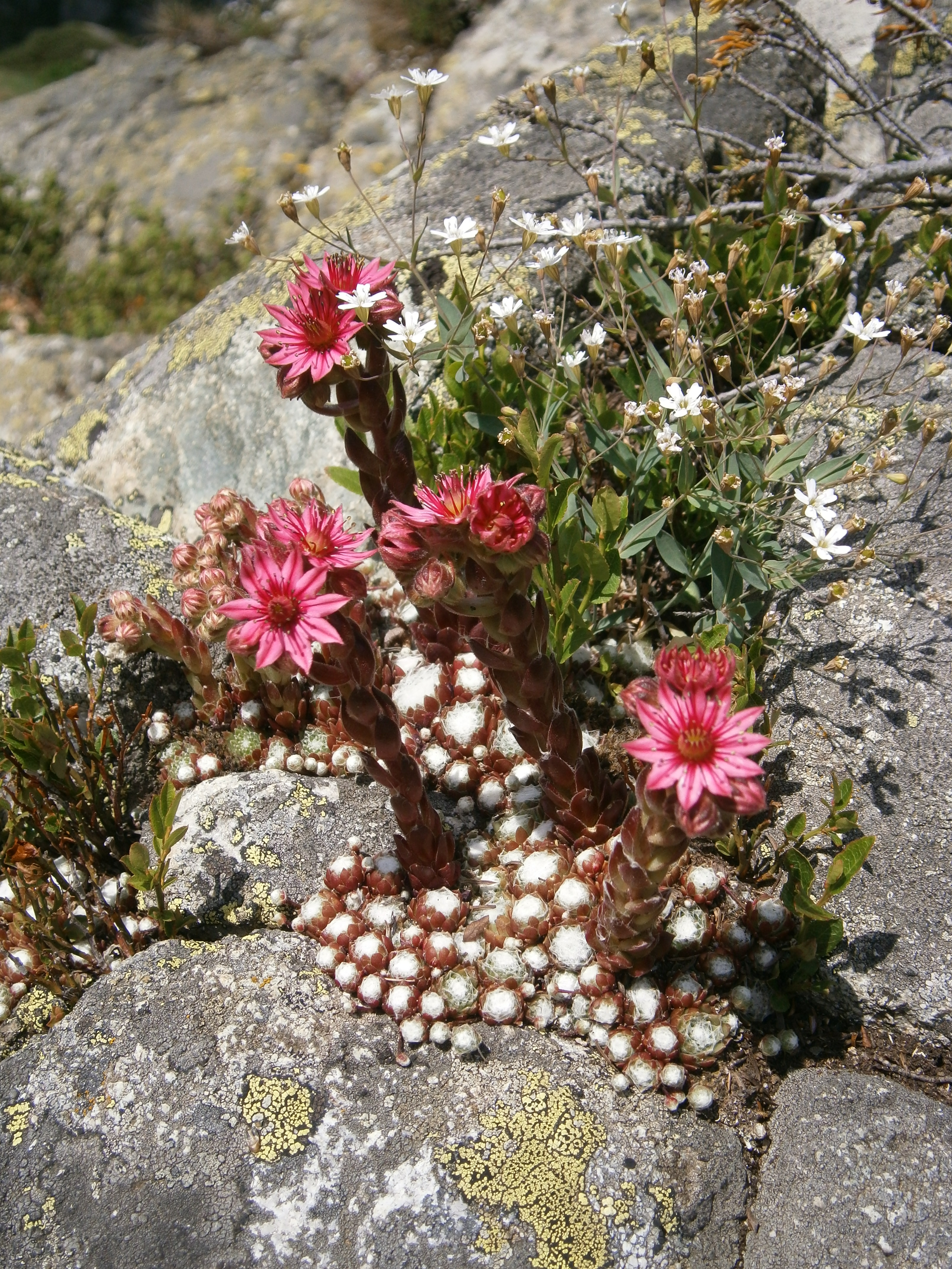 Sempervivum arachnoideum & Atocion rupestre